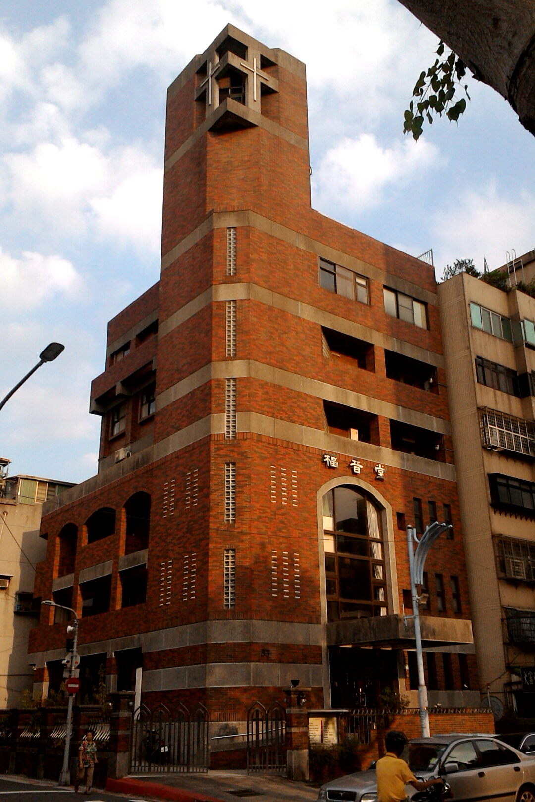 Longjiang Road Gospel Church, Zhongshan District, Taipei City.